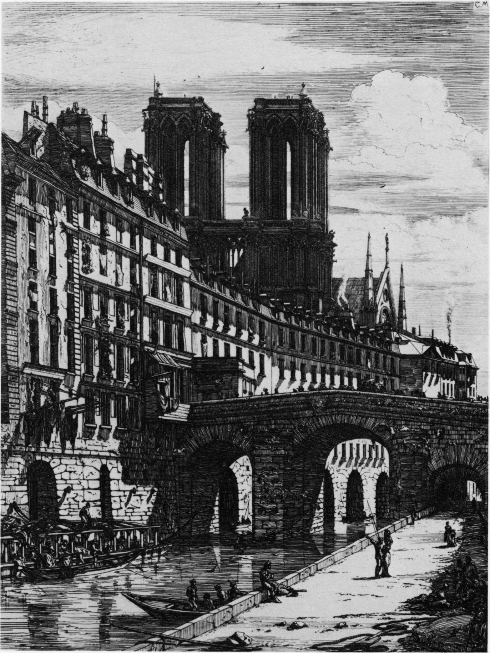 View of the Petit Pont in Paris. Left houses on the Île de la Cité. Towering over these houses is the Notre Dame de Paris.